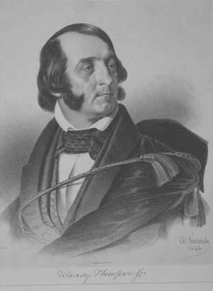 Waddy Thompson, Jr., US Representative from South Carolina